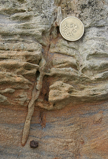 Fossil Root The string-like structure is a fossilised root of a plant which grew beside a river channel some 350 million years ago, when these sandstones were being deposited.